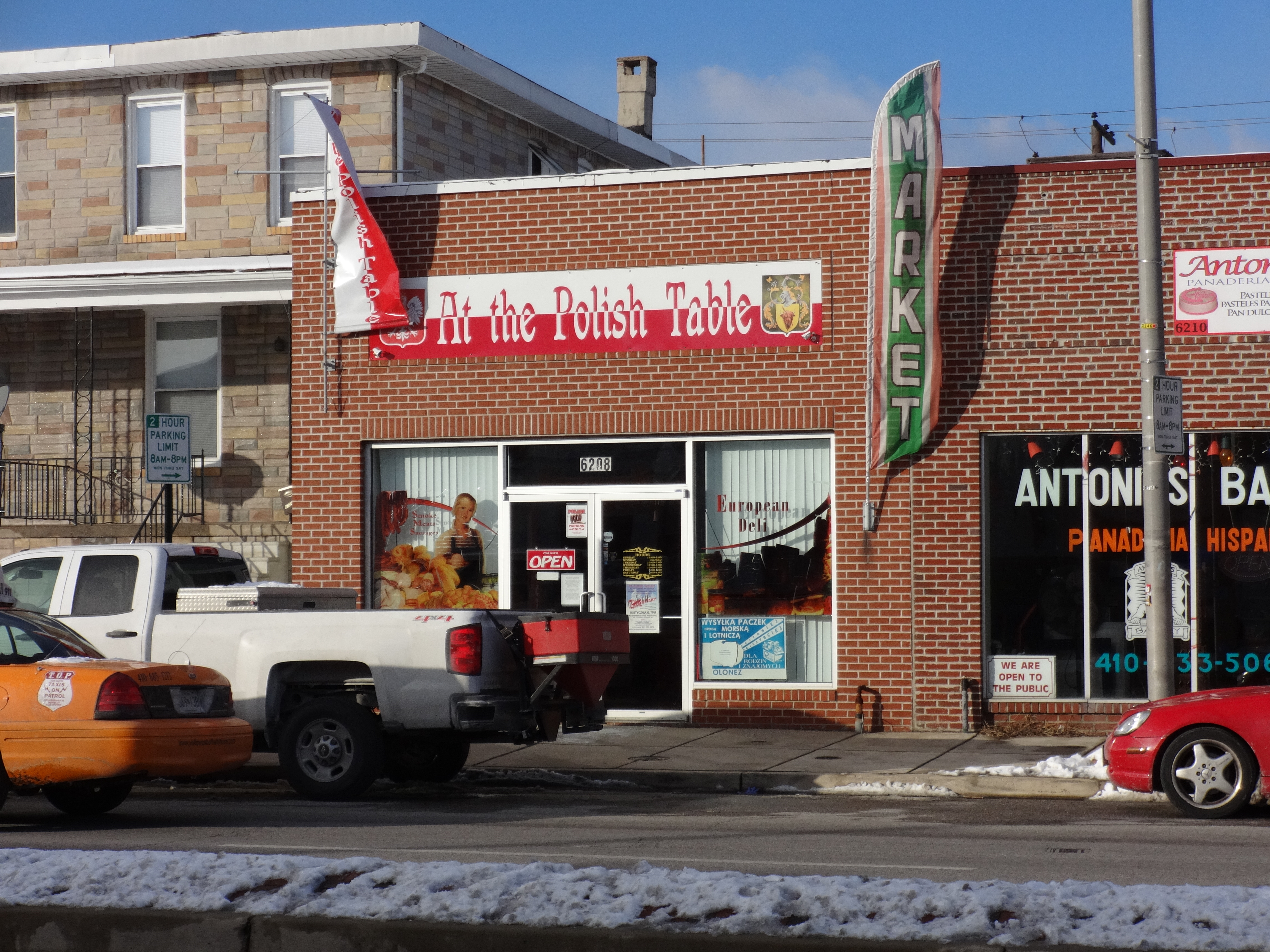 At the Polish Table, Bayview, Baltimore.